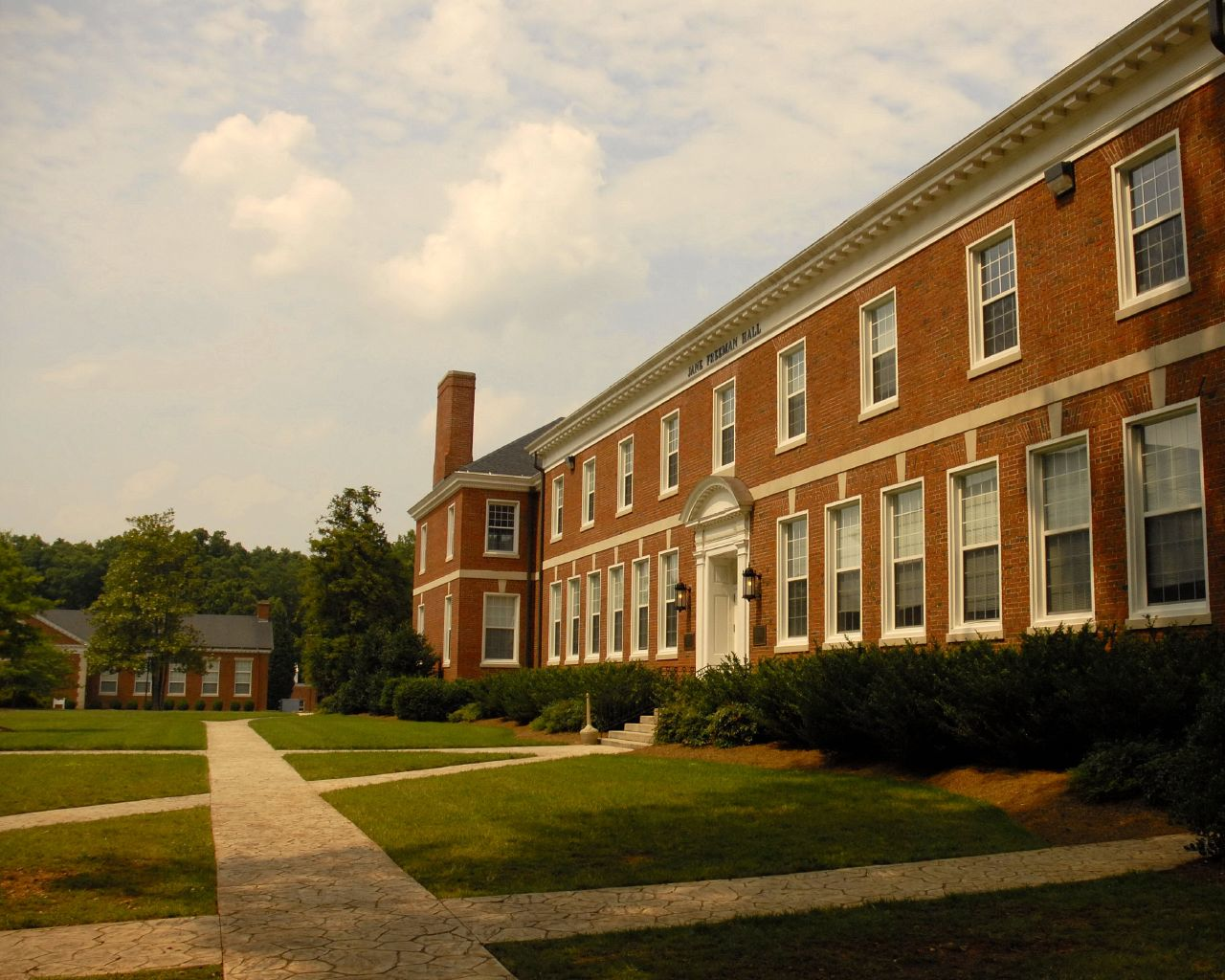 Jane_Freeman_Hall